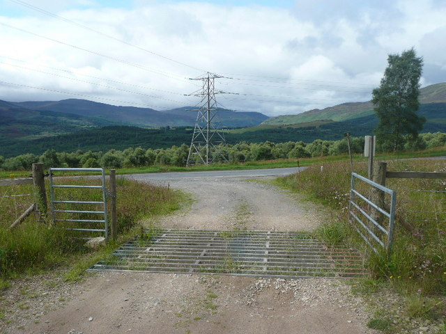 Cattle grid at Over Bohespic With view over Kinloch Rannoch and a pylon.